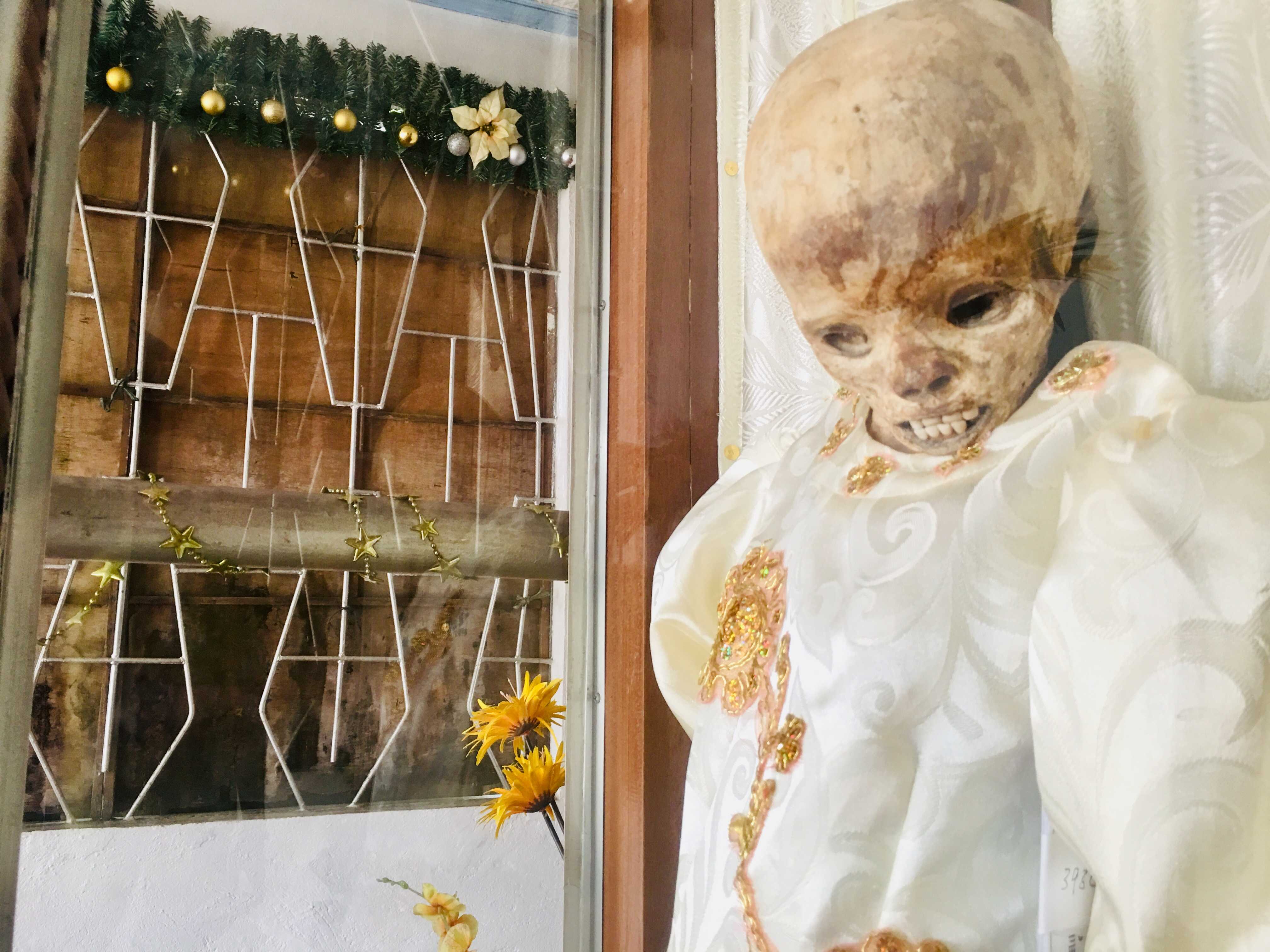 Miraculous cadaver of Maria Diana Alvarez in Gandara, Samar, Philippines